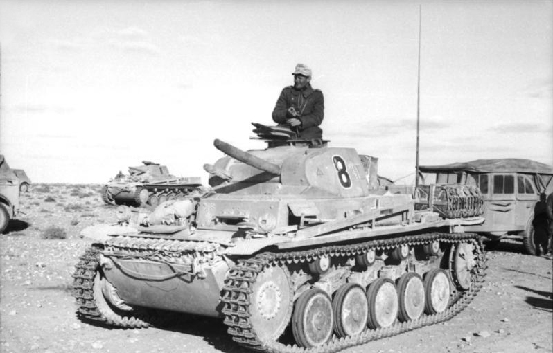 Panzer II of the 15th Panzer Division in North Africa used as Artillery Observation Tank. Therefore the main gun has been replaced by a simple mockup to create room for the observer.